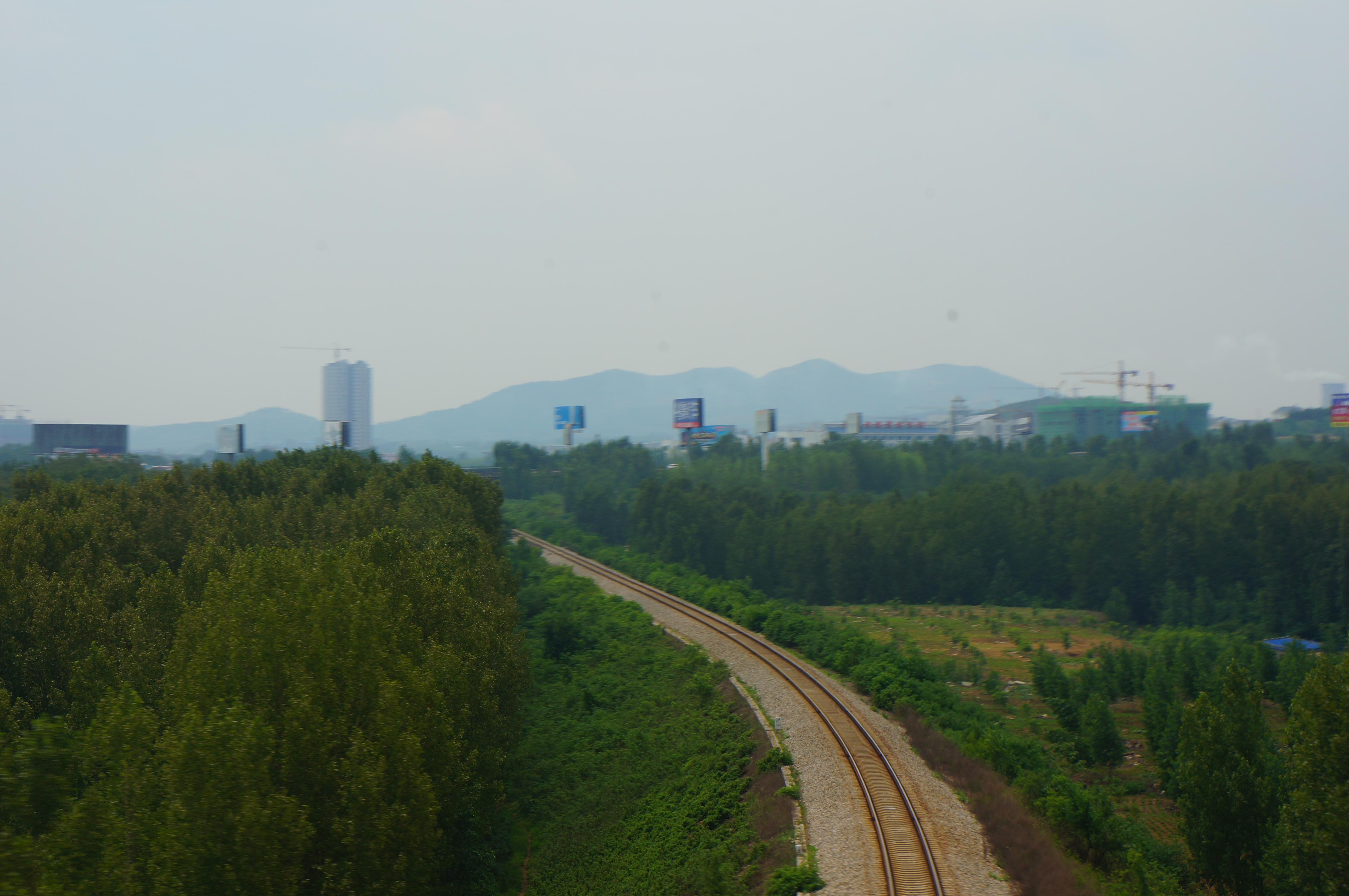 201606 Taian–Feicheng Railway in Taian